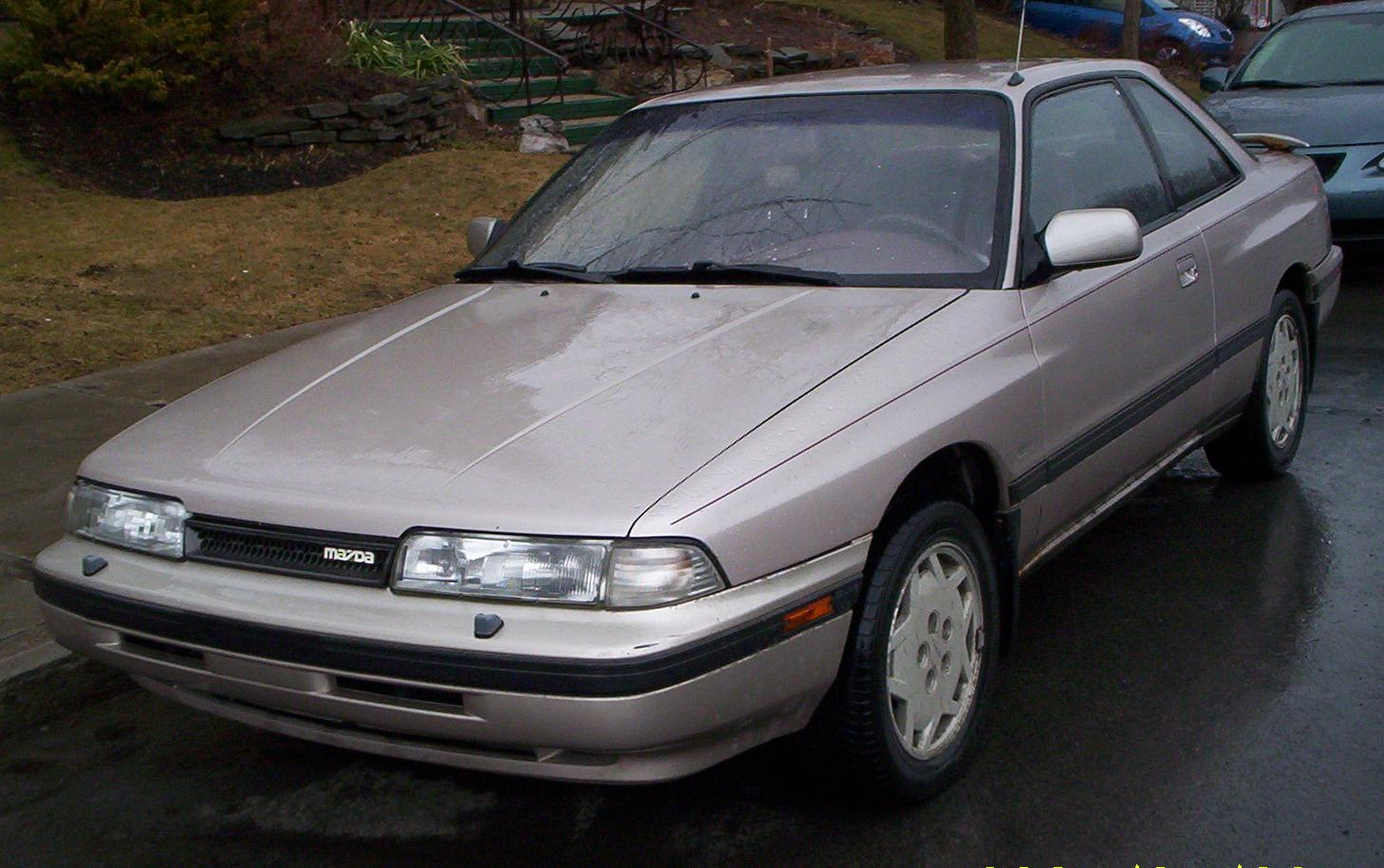 1988-1992 Mazda MX-6 photographed in Montreal, Quebec, Canada.